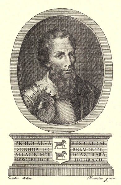 Pedro Álvares Cabral, Portuguese maritime explorer, discoverer of Brazil: this was first published in Retratos e elogios dos varões e donas que ilustraram a nação portuguesa, a serial work (1806–17) by the company formed by Pedro José de Figueiredo, Fr. Mariano Veloso, Canon Vilela Duarte da Cunha and Jose Taborda.